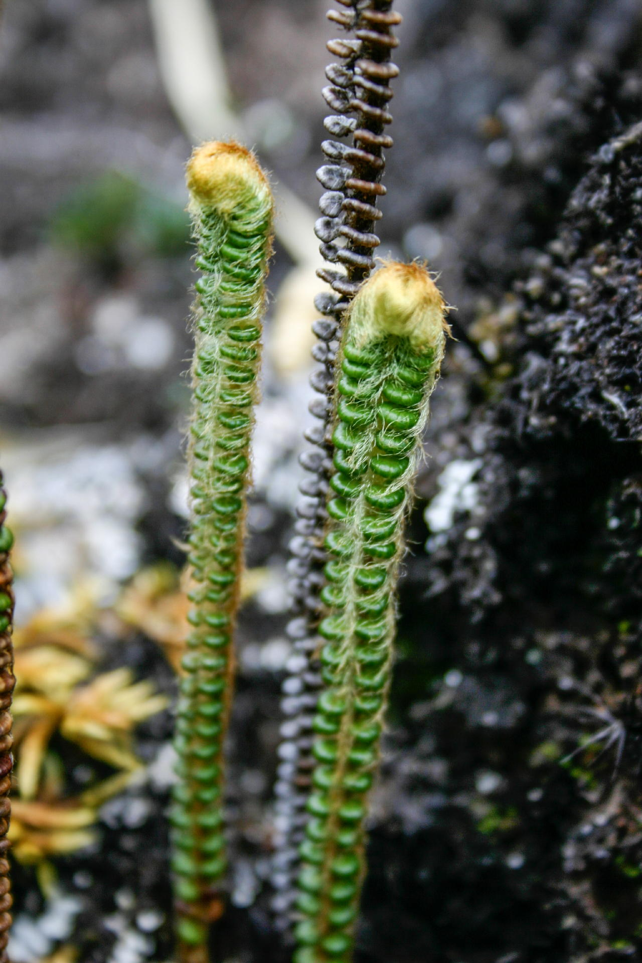 Found in the páramo vegetation on top of the Chirripó massif in southern Costa Rica.